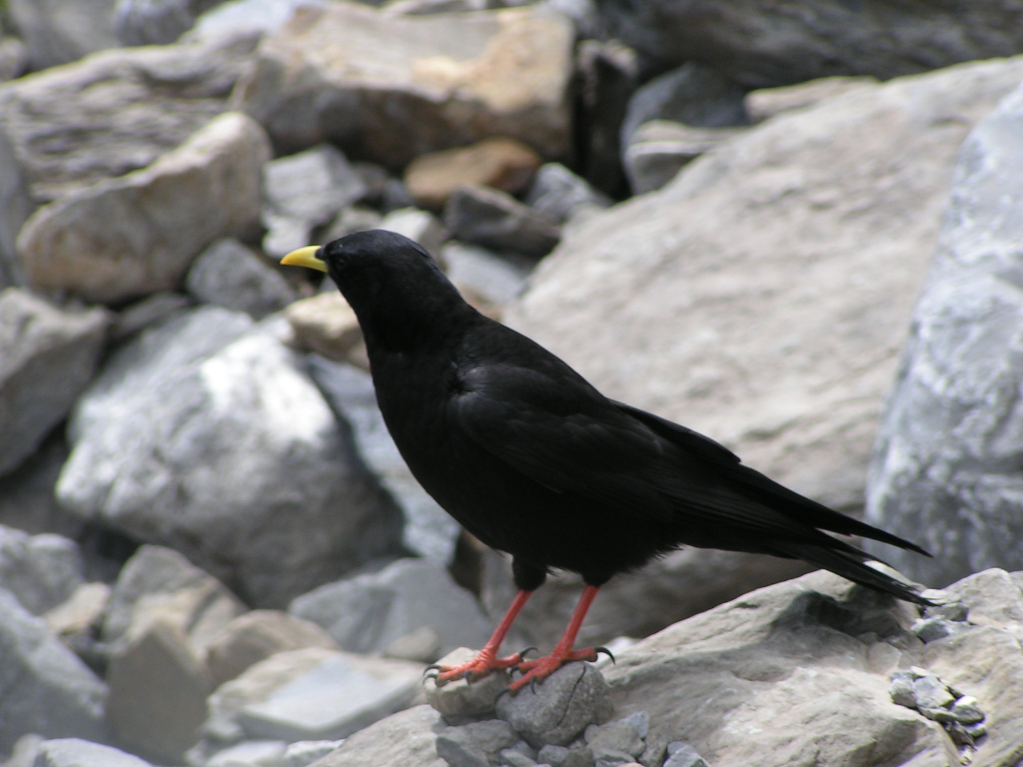 Alpine Chough (Pyrrhocorax graculus) in Switzerland.